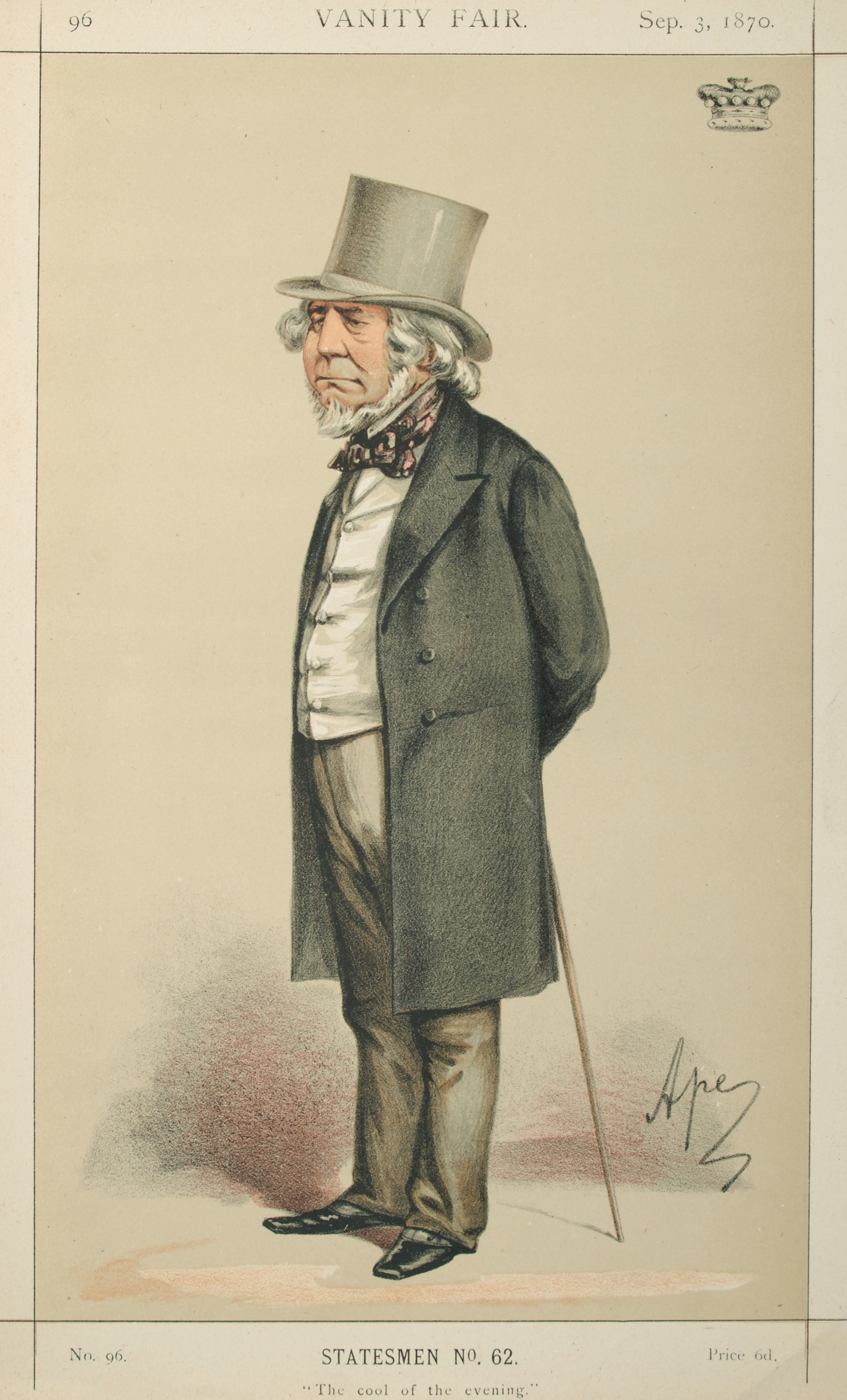 Statesmen No.62: Caricature of Lord Houghton. Caption reads: "The cool of the evening."